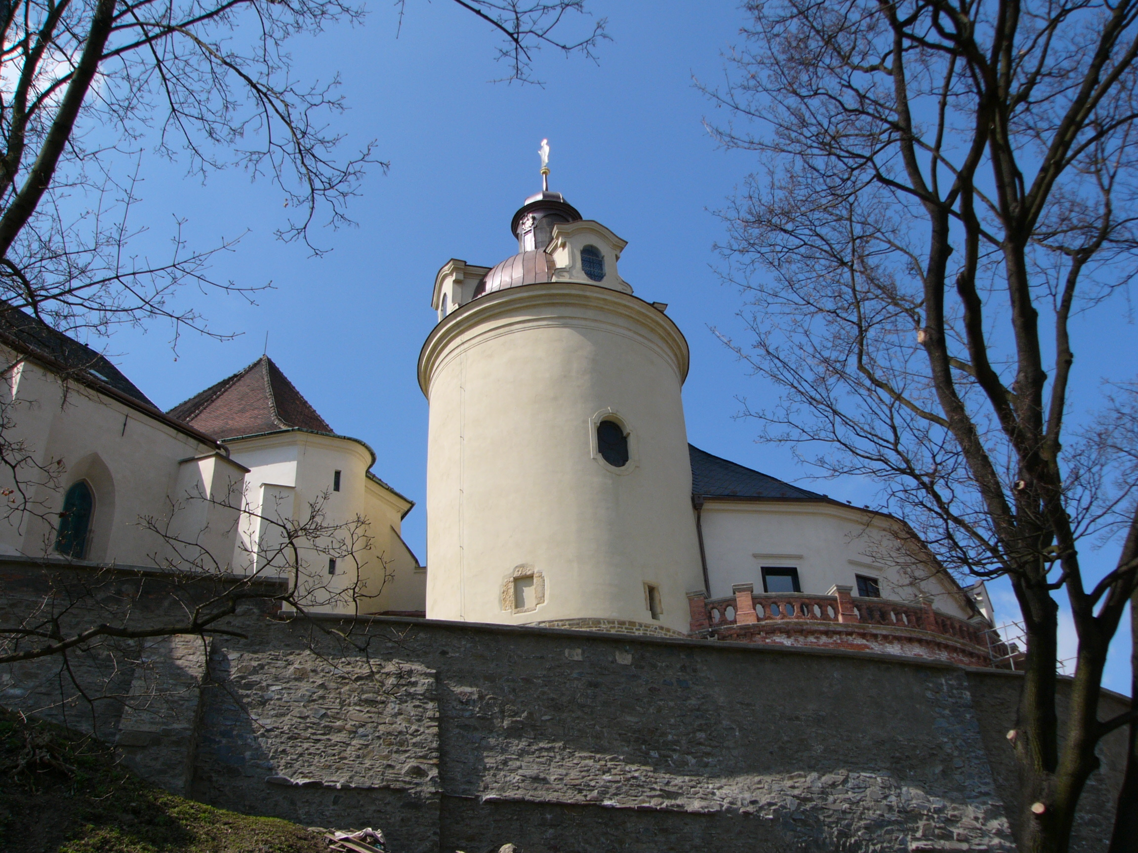 Baroque kaple svaté Barbory chapel in Olomouc (Czech Republic). It stands upon romanesque rounded tower from begining of 13th century, the main tower of Olomouc castle. It is the first keep of this type in the Czech Republic (imported from Germany).